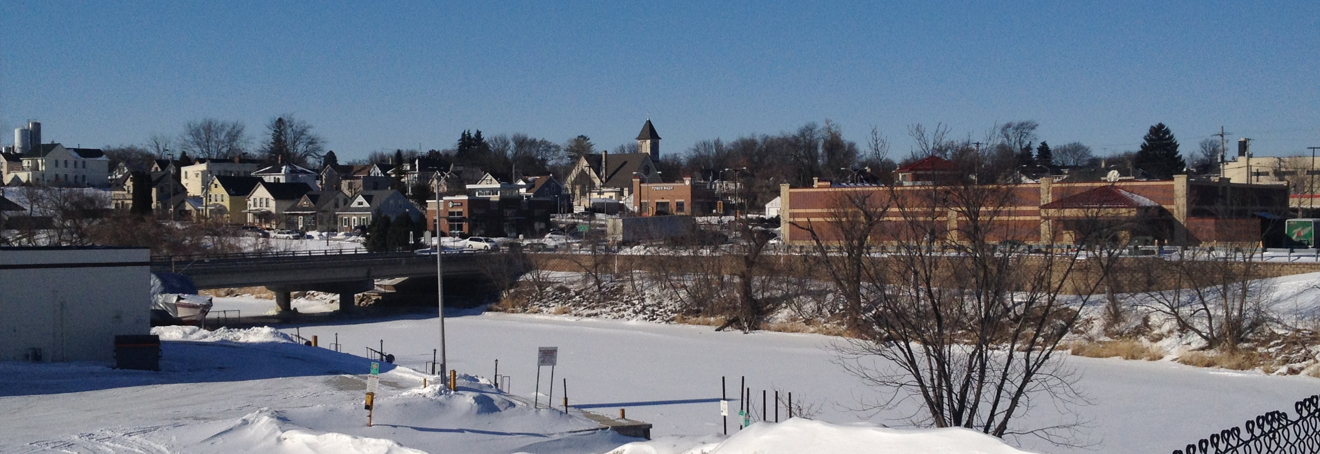 Image of the terminus of Wisconsin Highway 23, Wisconsin Highway 28 and Wisconsin Highway 42 in Sheboygan, Wisconsin, along with the city's North 14th Street Bridge from a nearby former railroad bridge converted to a bike trail.